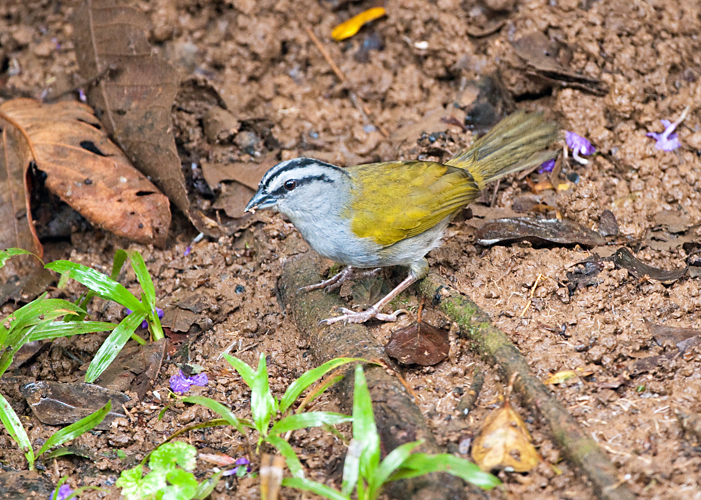 A Black-striped Sparrow near Rancho Naturalista, Cordillera de Talamanca, Costa Rica.